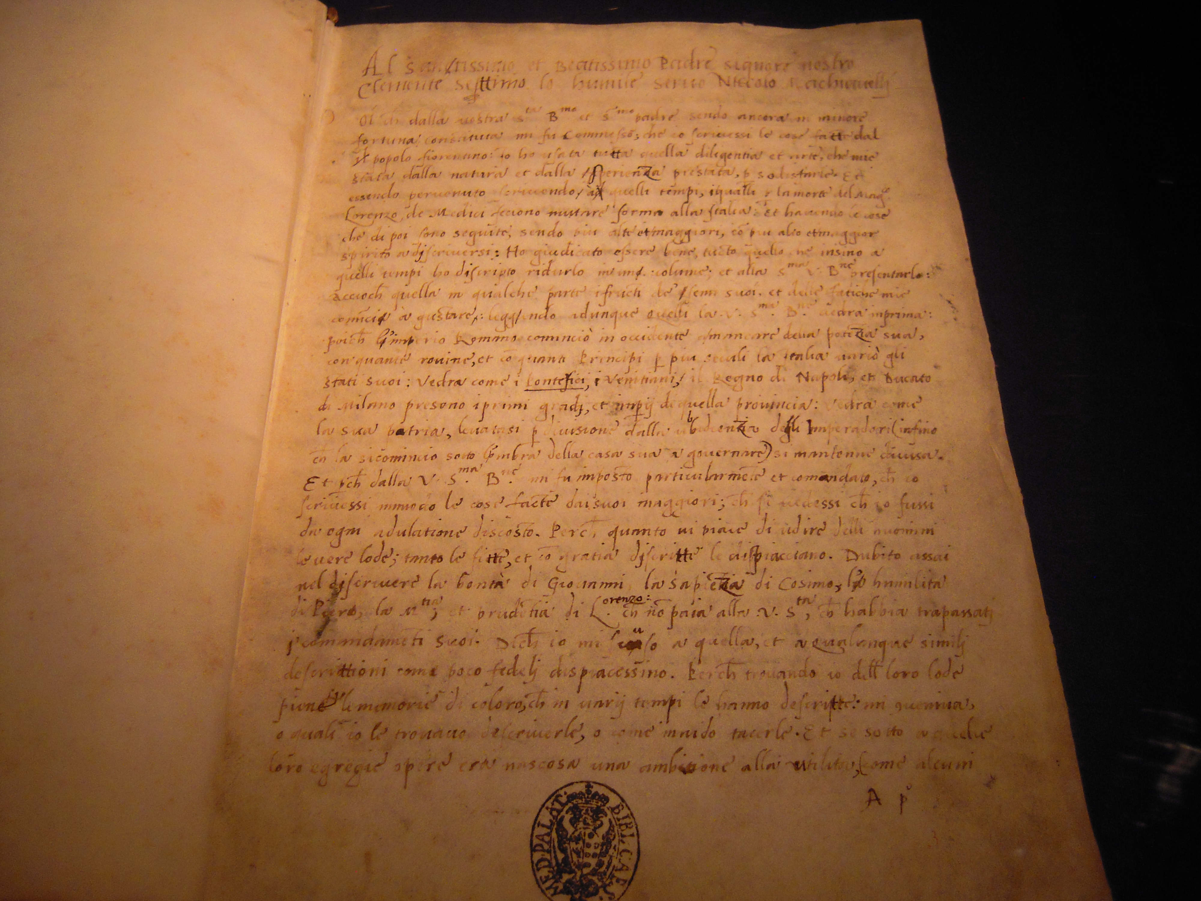 Autograph Historiae Fiorentinae - Niccolò Machiavelli.